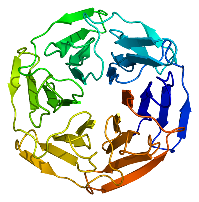 Structure of the KEAP1 protein. Based on PyMOL rendering of PDB 1u6d.